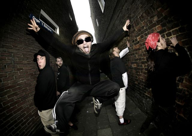 Jaya The Cat